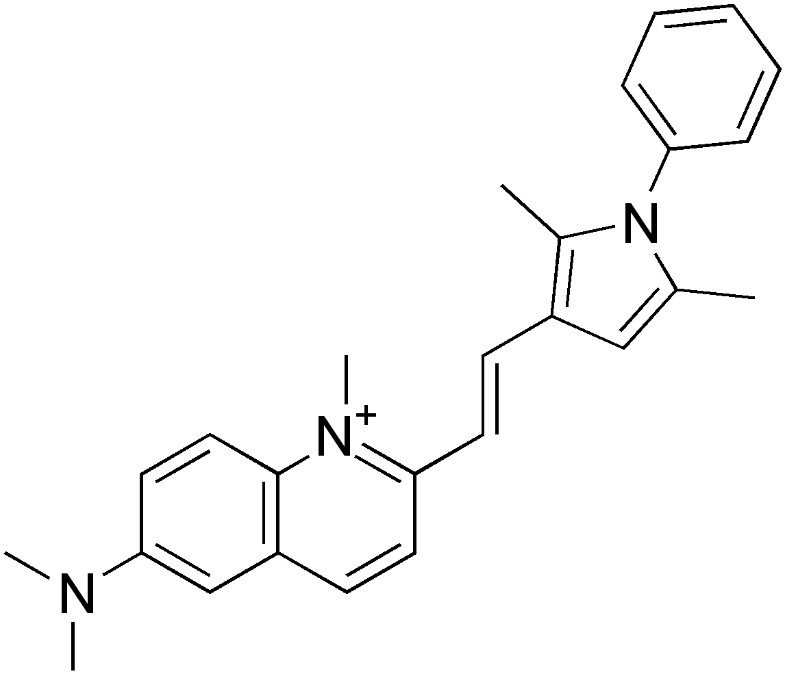 chemical structure of pyrvinium